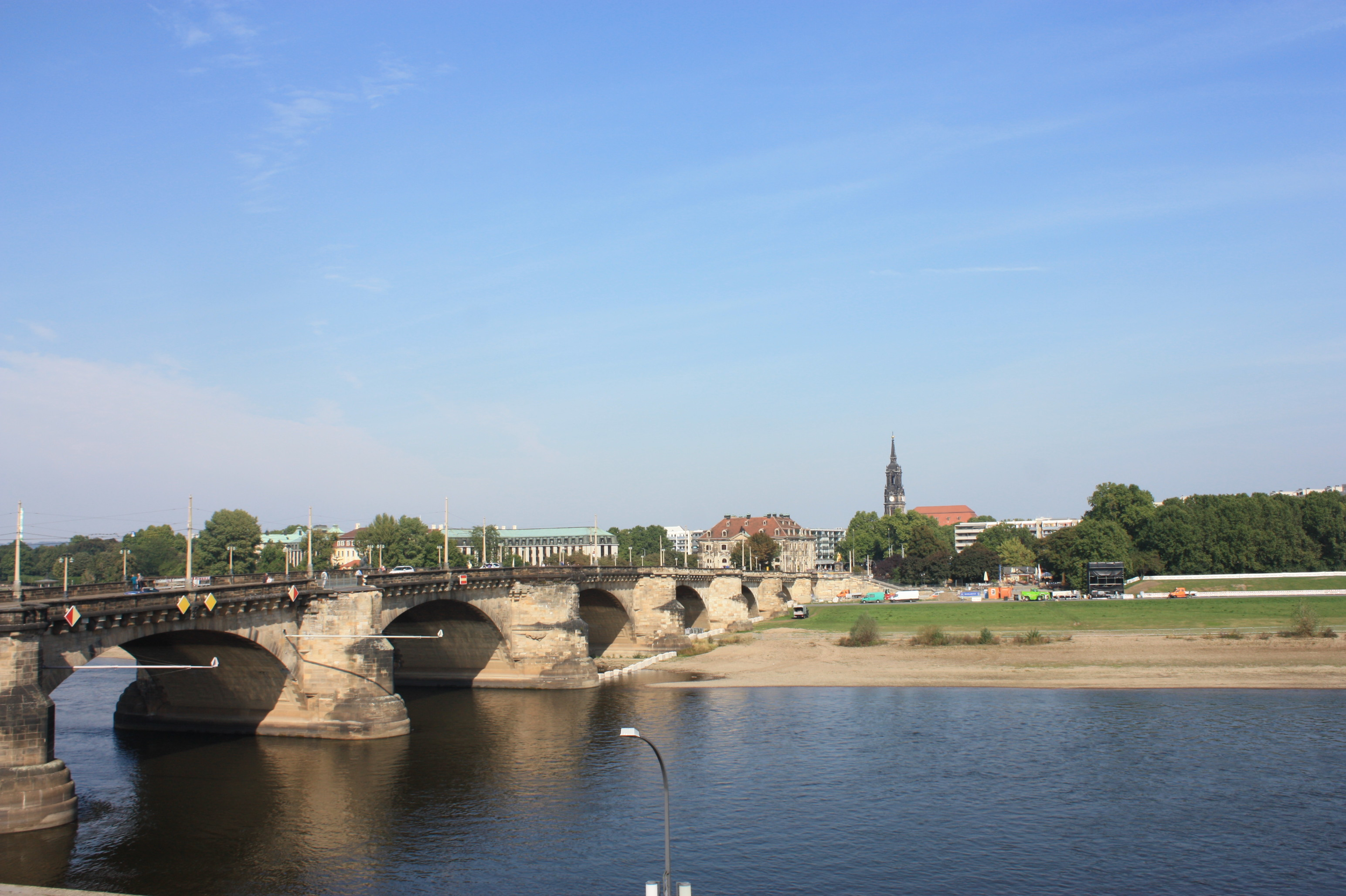 Augustusbrucke and Neustadt viewed from the south bank of the Elbe in Dresden